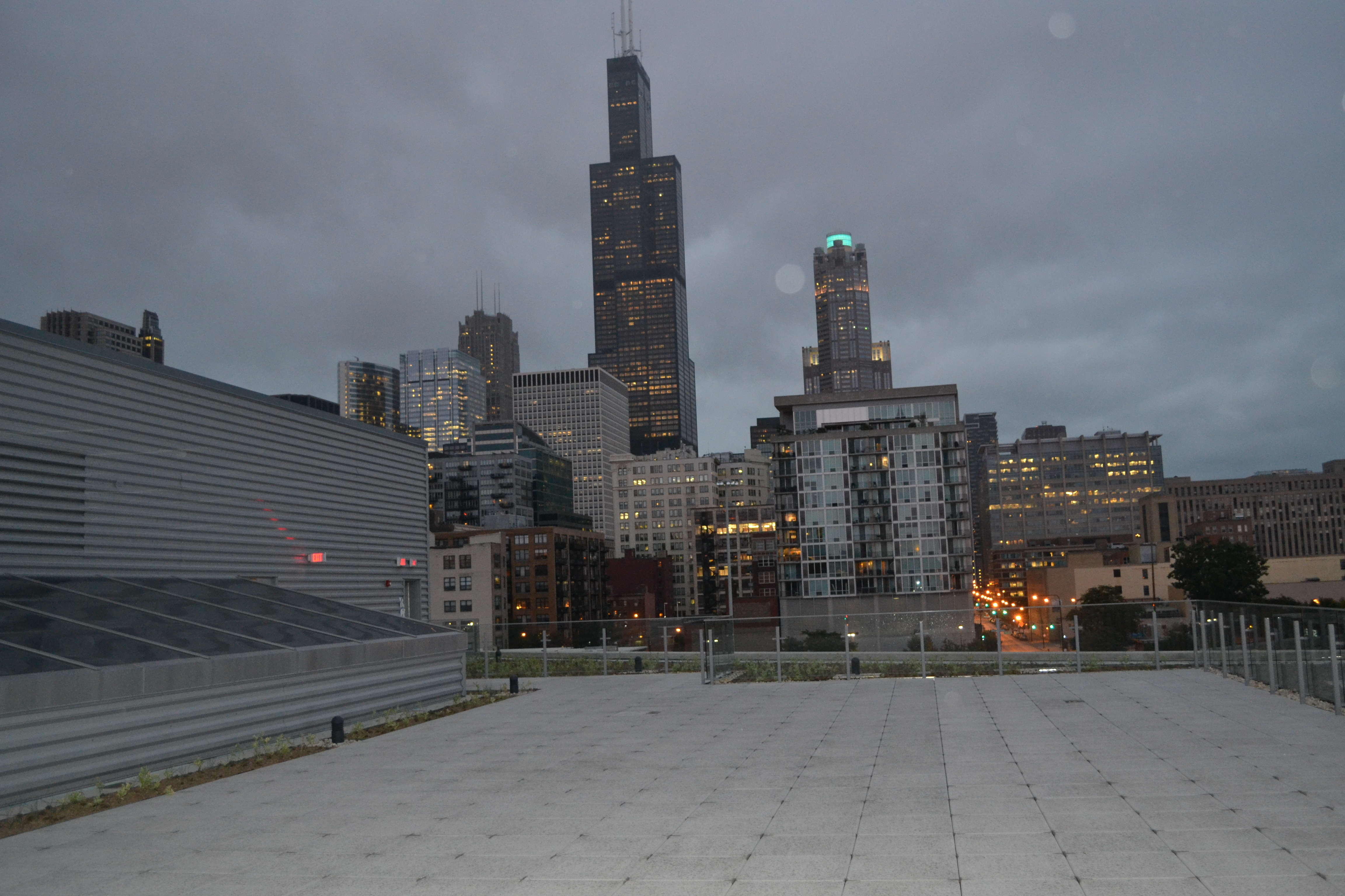 View from the rooftop terrace ; National Hellenic Museum